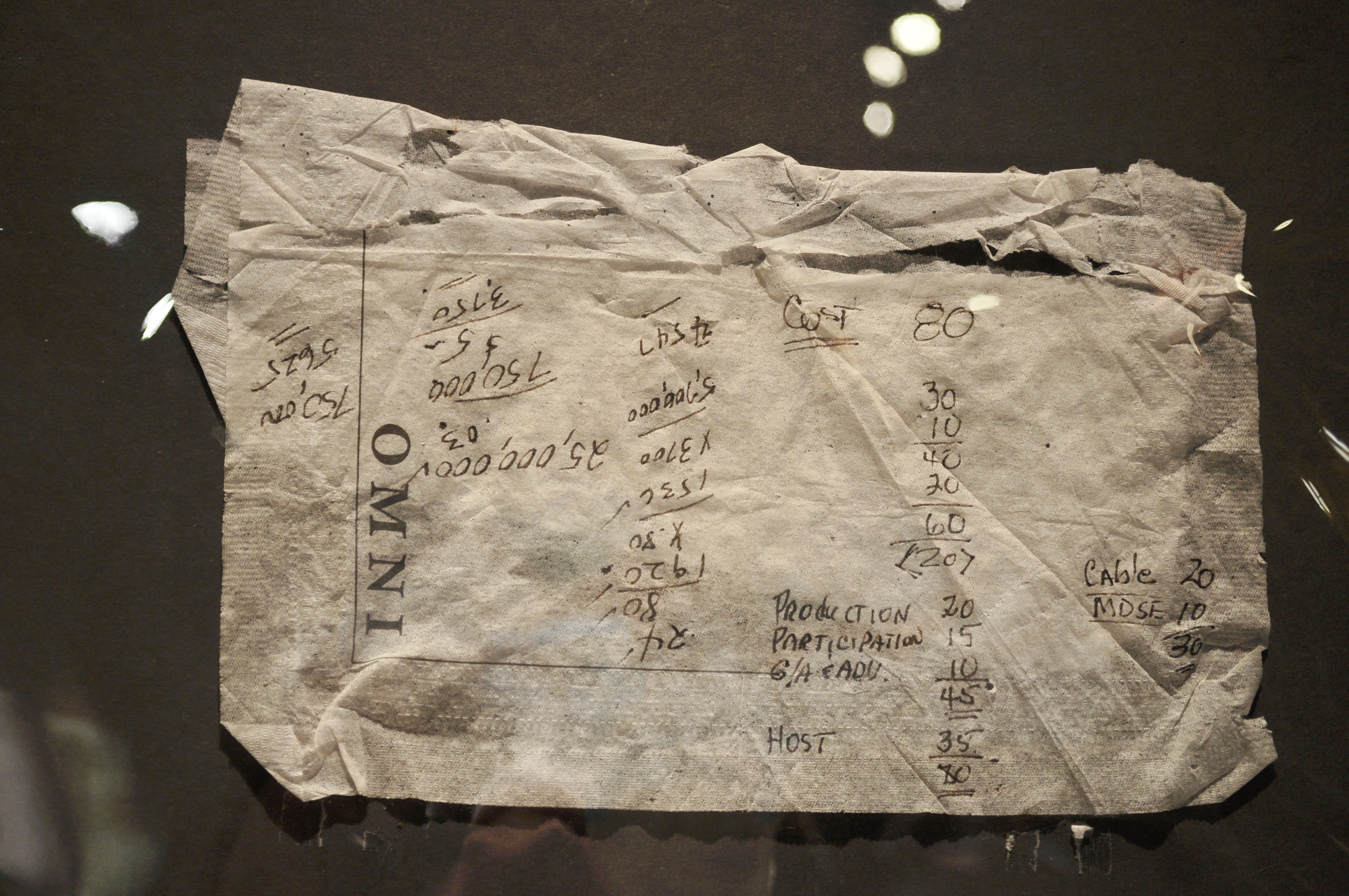 Paper napkin on which Bob Walsh, lawyer Doug Rogers, and Turner Broadcasting System executives Paul Beckham and David Raith sketched out the preliminary financial arrangements for the 1990 Goodwill Games. On exhibit as part of Glasnost & Goodwill: Citizen Diplomacy in the Northwest, an exhibit at the Washington State History Museum, Tacoma, Washington, U.S. October 7, 2017 - Sunday, January 21, 2018.